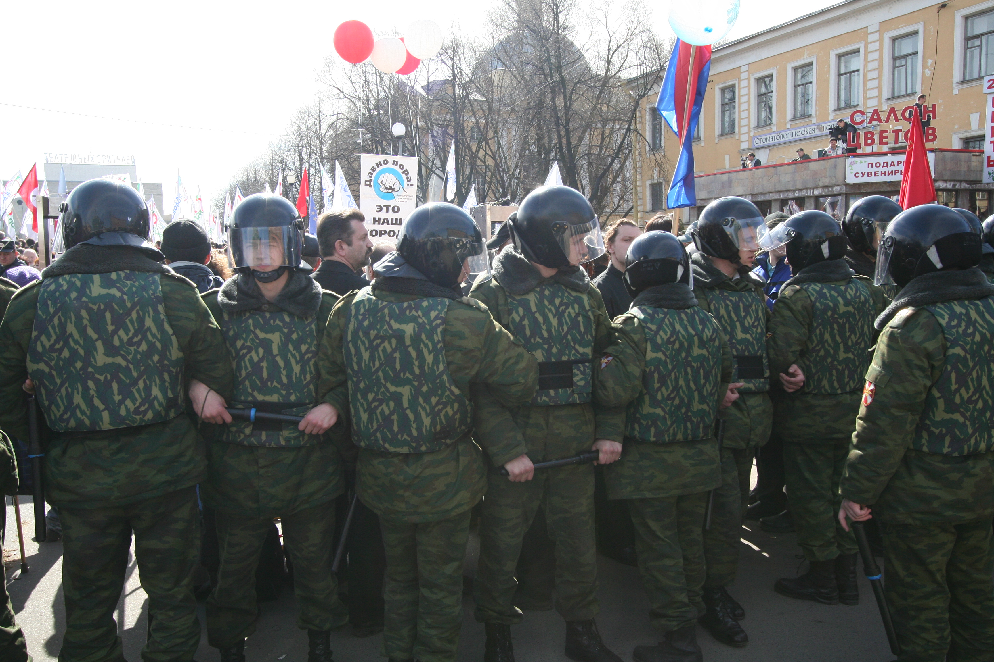 TYuZ, April 15, 2007, Marsh Nesoglasnyx, SPb, Russia; chain